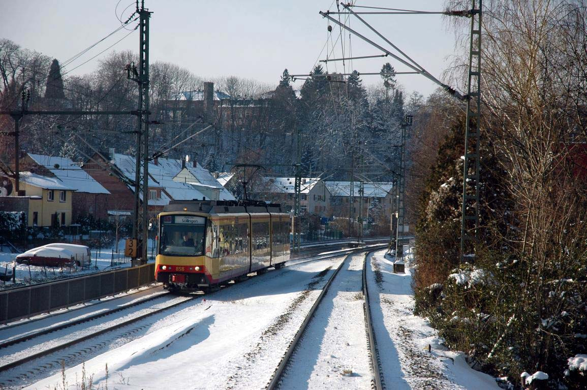 AVG car of type GT8-100D, location: Karlsruhe-Grötzingen at branch of Kraichgaubahn from KBS 770, train number: 84773